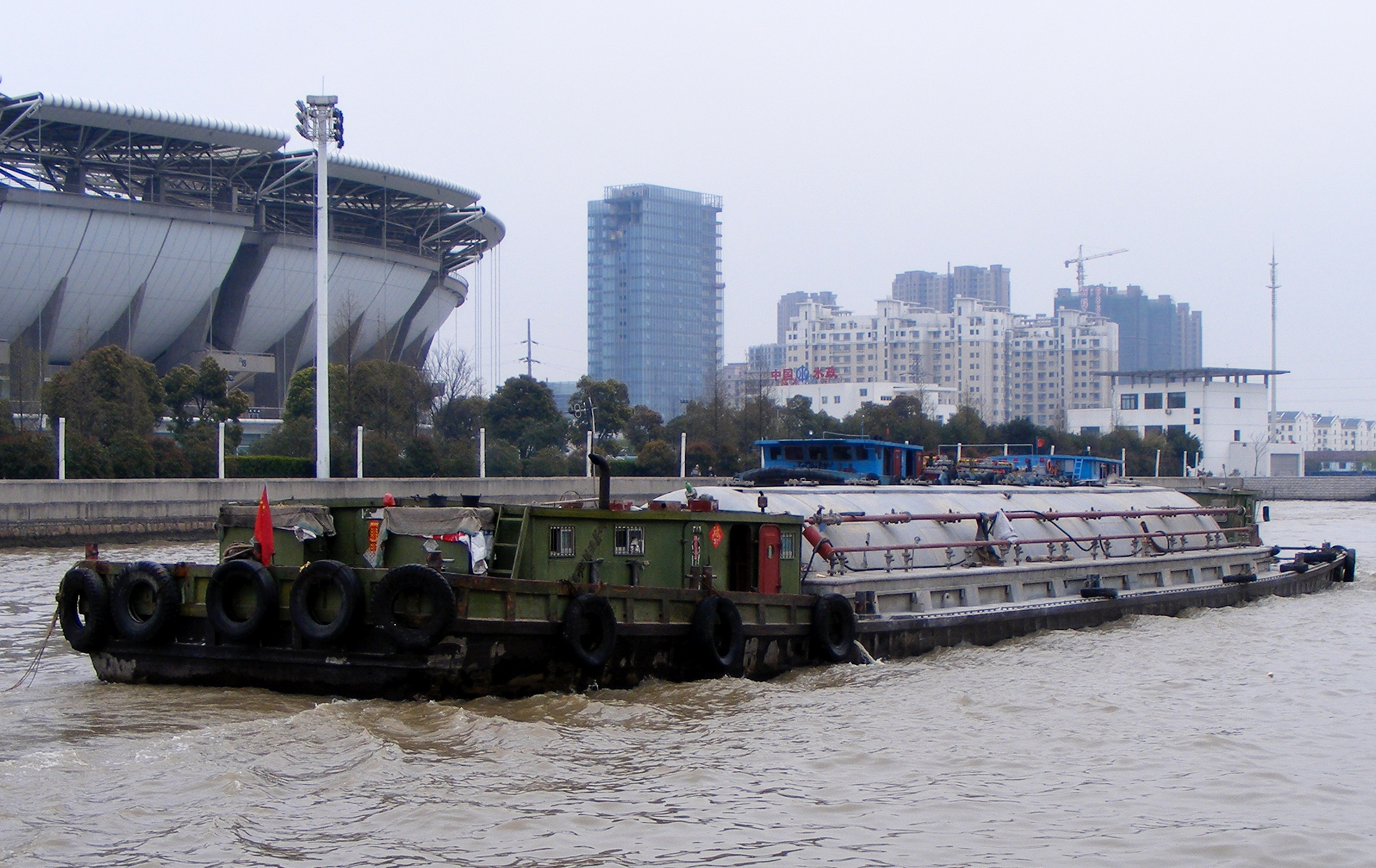 Transport barge on the Grand Canal, Suzhou, China